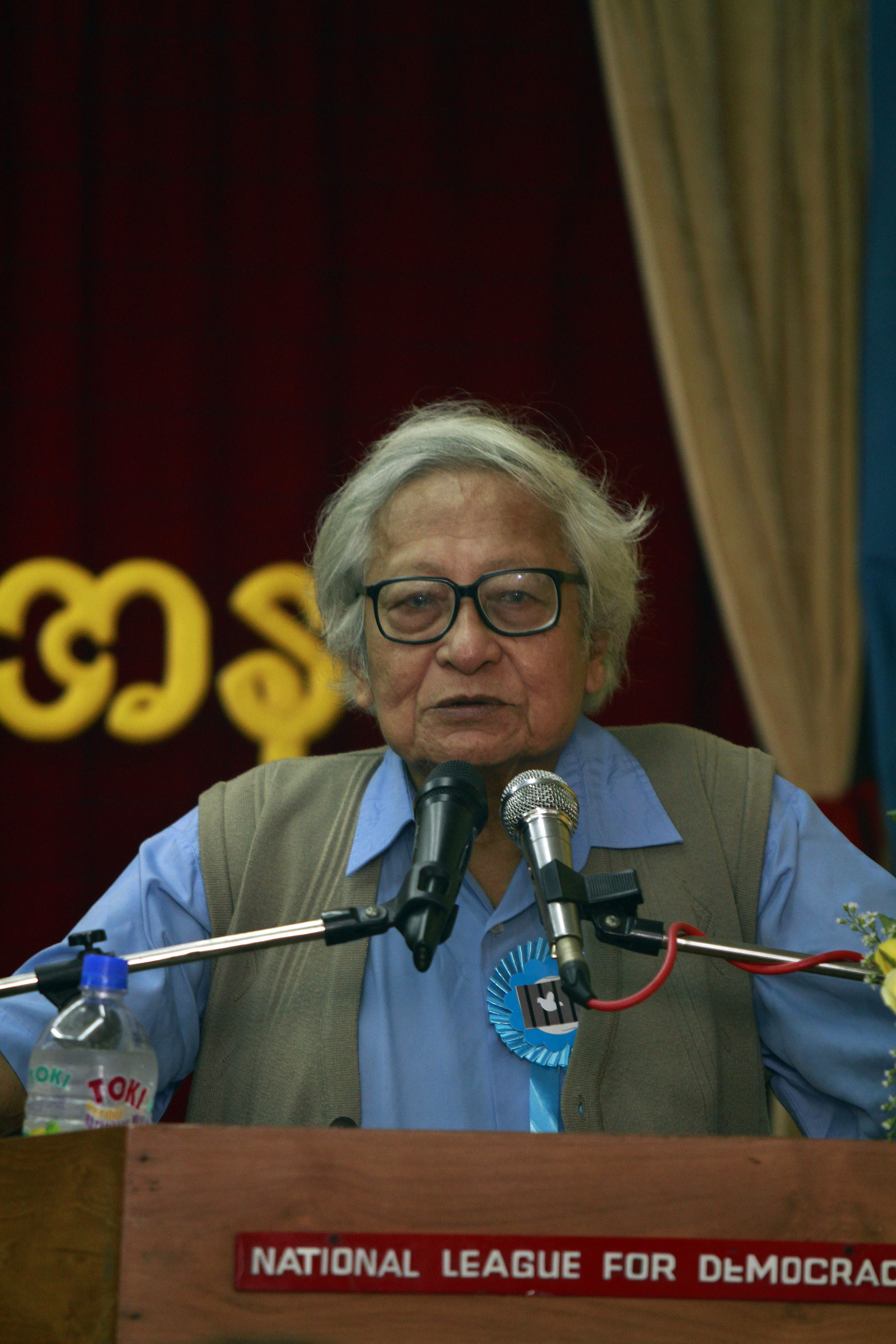 Win Tin gives speech to supporters at National League for Democracy (NLD) headquarter in Yangon, Myanmar on 20 November 2011. မြန်မာဘာသာ: ဦးဝင်းတင်